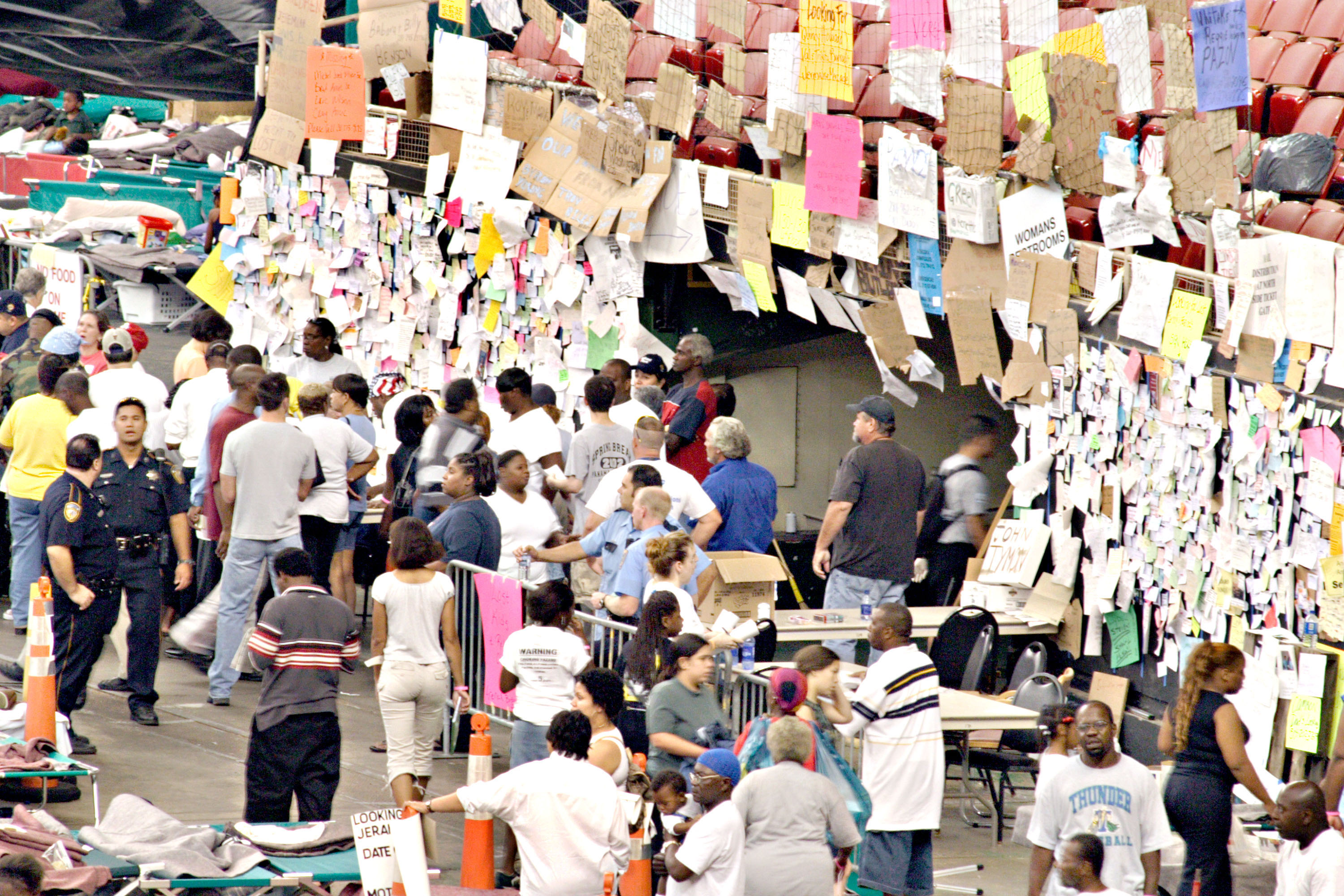 Houston, TX, September 3, 2005 -- A giant message board helps people locate friends and loved ones at the Reliant Center. Thousands of displaced citizens were moved from New Orleans to Houston as New Orleans was evacuated because of flooding following hurricane Katrina. Photo by Ed Edahl/FEMA.